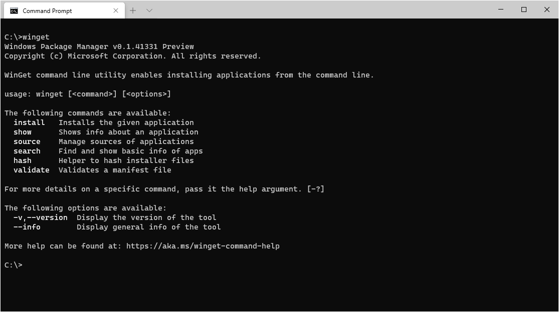 Windows Package Manager v0.1.41331 Preview